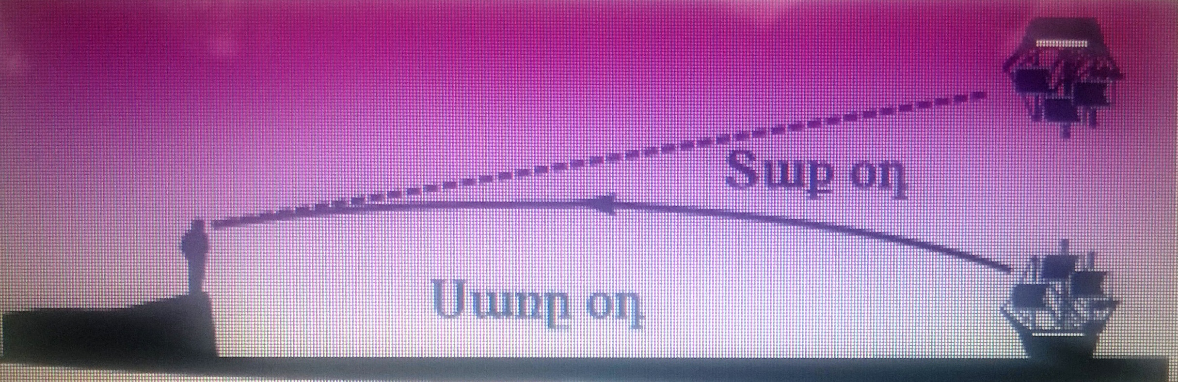 Мираж